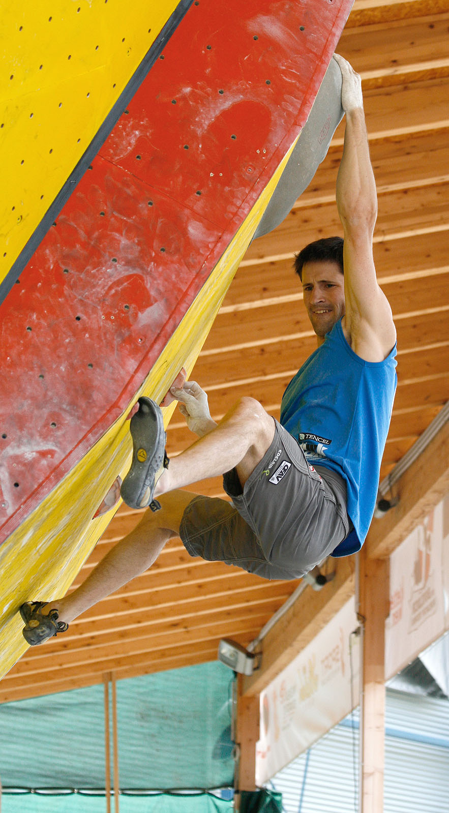 Kilian Fischhuber during the semi-finals at the IFSC Boulder Worldcup Vienna 2010.